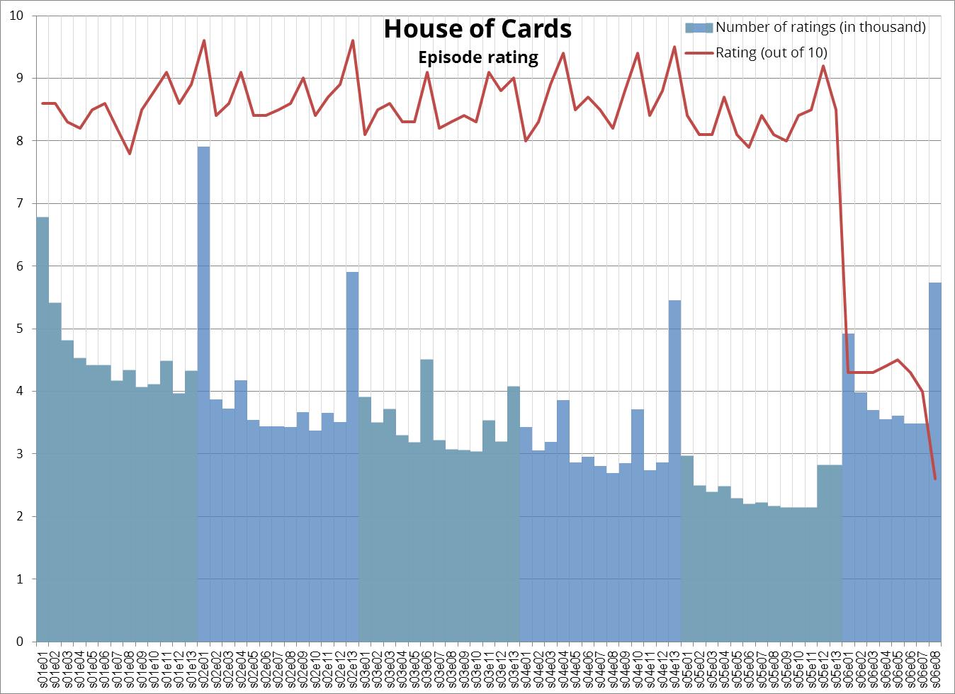 (Save this as CSV);(Data used for chart); Season and Episode;Number of ratings (in thousand);Rating (out of 10) s01e01;6,773;8,6 s01e02;5,408;8,6 s01e03;4,812;8,3 s01e04;4,525;8,2 s01e05;4,418;8,5 s01e06;4,412;8,6 s01e07;4,163;8,2 s01e08;4,337;7,8 s01e09;4,065;8,5 s01e10;4,107;8,8 s01e11;4,485;9,1 s01e12;3,956;8,6 s01e13;4,324;8,9 s02e01;7,909;9,6 s02e02;3,865;8,4 s02e03;3,725;8,6 s02e04;4,177;9,1 s02e05;3,539;8,4 s02e06;3,441;8,4 s02e07;3,435;8,5 s02e08;3,43;8,6 s02e09;3,668;9 s02e10;3,369;8,4 s02e11;3,654;8,7 s02e12;3,51;8,9 s02e13;5,909;9,6 s03e01;3,906;8,1 s03e02;3,496;8,5 s03e03;3,714;8,6 s03e04;3,297;8,3 s03e05;3,176;8,3 s03e06;4,5;9,1 s03e07;3,217;8,2 s03e08;3,07;8,3 s03e09;3,057;8,4 s03e10;3,034;8,3 s03e11;3,536;9,1 s03e12;3,193;8,8 s03e13;4,071;9 s04e01;3,429;8 s04e02;3,053;8,3 s04e03;3,191;8,9 s04e04;3,861;9,4 s04e05;2,867;8,5 s04e06;2,958;8,7 s04e07;2,809;8,5 s04e08;2,698;8,2 s04e09;2,849;8,8 s04e10;3,71;9,4 s04e11;2,742;8,4 s04e12;2,867;8,8 s04e13;5,456;9,5 s05e01;2,962;8,4 s05e02;2,496;8,1 s05e03;2,39;8,1 s05e04;2,477;8,7 s05e05;2,285;8,1 s05e06;2,198;7,9 s05e07;2,219;8,4 s05e08;2,162;8,1 s05e09;2,145;8 s05e10;2,137;8,4 s05e11;2,142;8,5 s05e12;2,824;9,2 s05e13;2,824;8,5 s06e01;4,92;4,3 s06e02;3,978;4,3 s06e03;3,702;4,3 s06e04;3,55;4,4 s06e05;3,613;4,5 s06e06;3,489;4,3 s06e07;3,491;4 s06e08;5,737;2,6